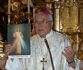 bishop Pavol Maria Hnilica SJ in jesuit church (Trnava - Slovakia)